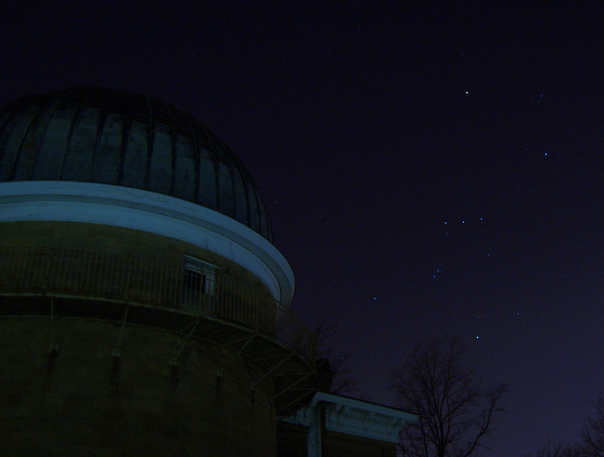 The Washburn Observatory taken at night early in 2007 with the constellation Orion in the background.